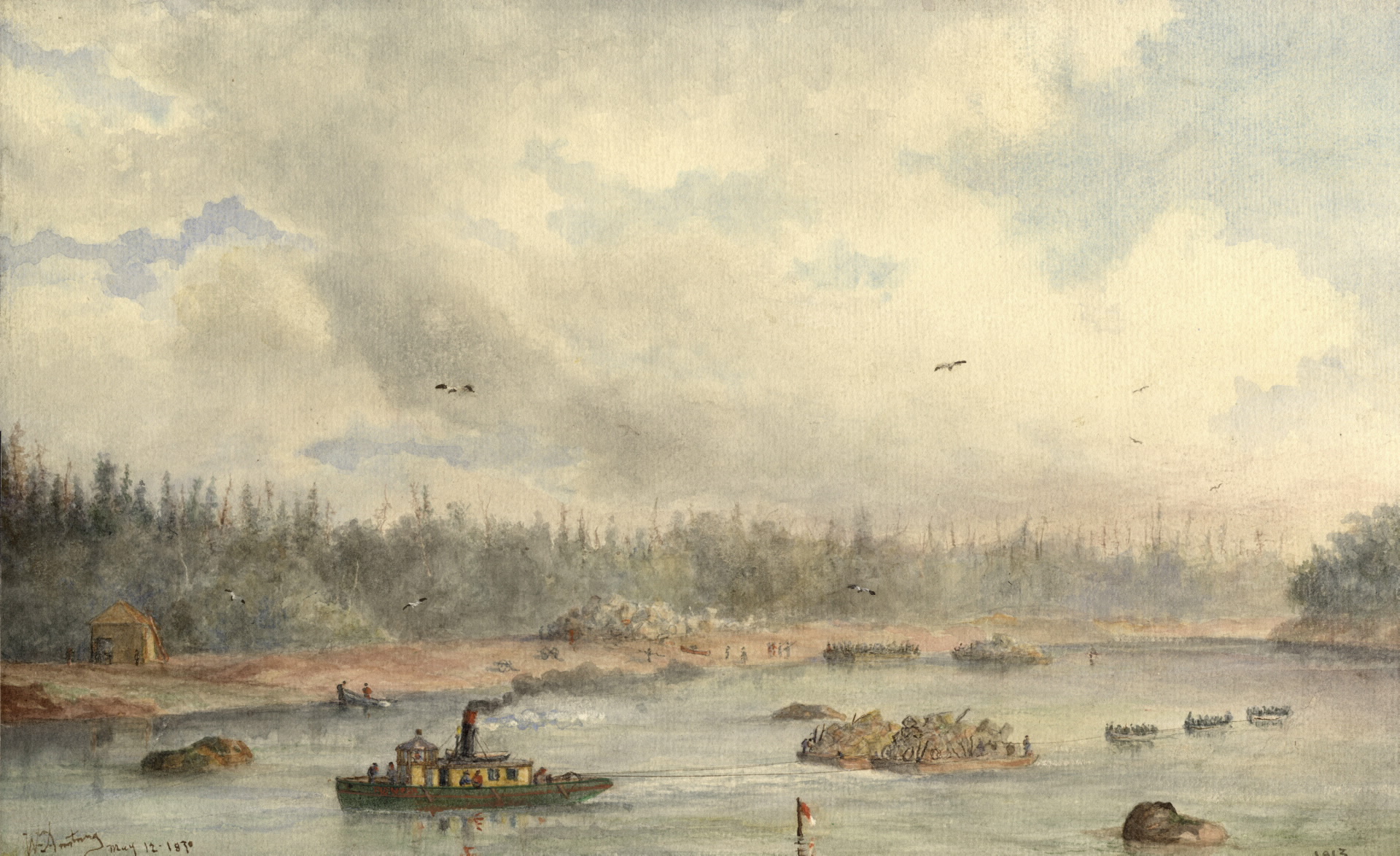 Landing at Sault Ste Marie, Red River Expedition Original caption: "A wood engraving of this subject "RED RIVER EXPEDITION.-PURGATORY LANDING." is in Canadian illustrated news, Montreal 9 July 1870 (v.2, no.2) p.17; the tug is identified as the "Pioneer" on p. 18, col. 2. Painted 1913." — 1870 (painted 1913) Inscribed l.l.: Wm. Armstrong / May 12. 1870; l.r.: 1913; vso of mount: cropped] Ste Marie to Lake Superior / [cropped] adian side (called Purgatory [cropped] ing The American Government / [cropped]d not permit our Steamers / [cropped] through American Canal with / [cropped] Material on board / W.A / [the following in a different hand] 3437